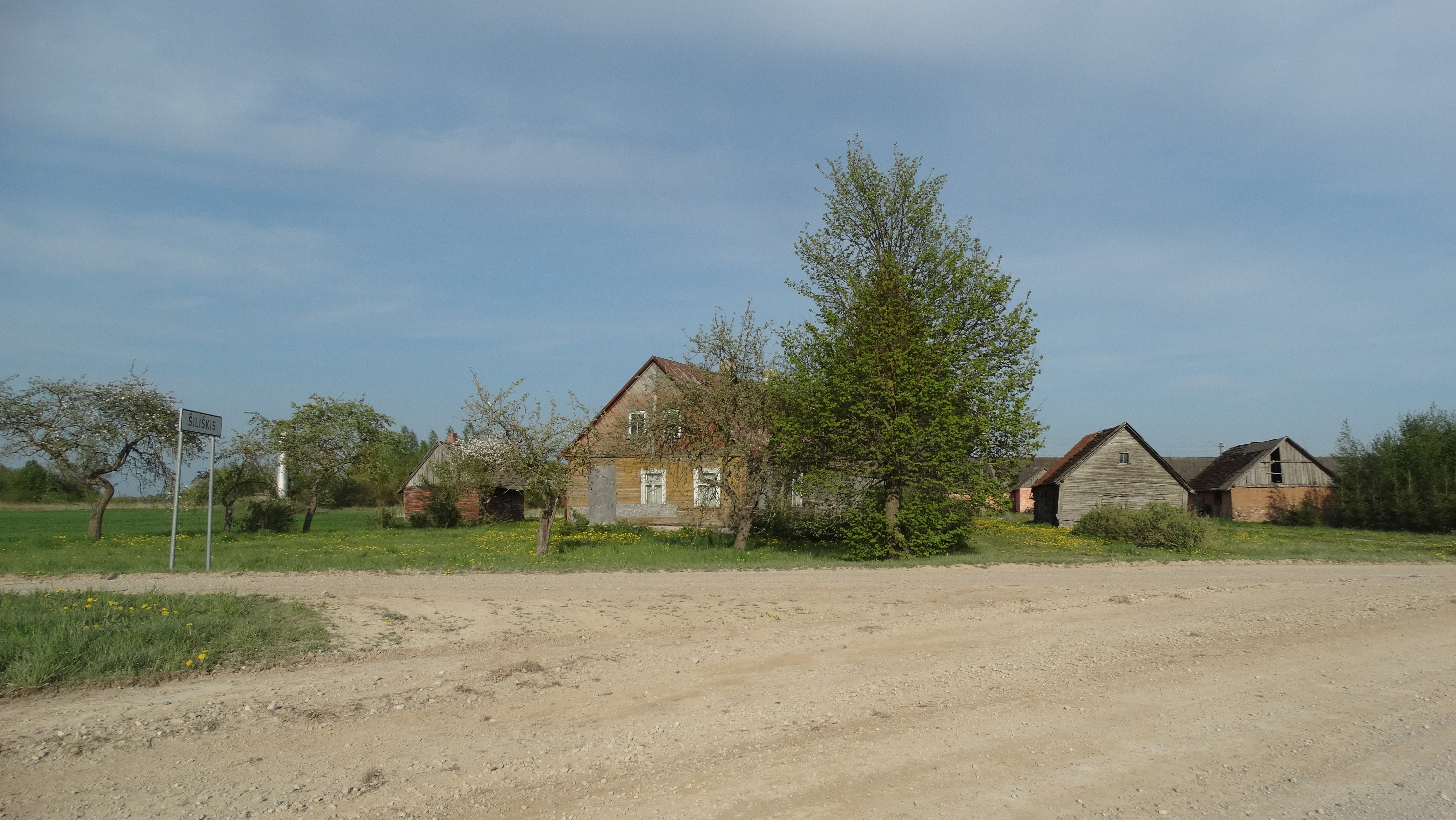 Šiliškis, Pakruojis district, Lithuania